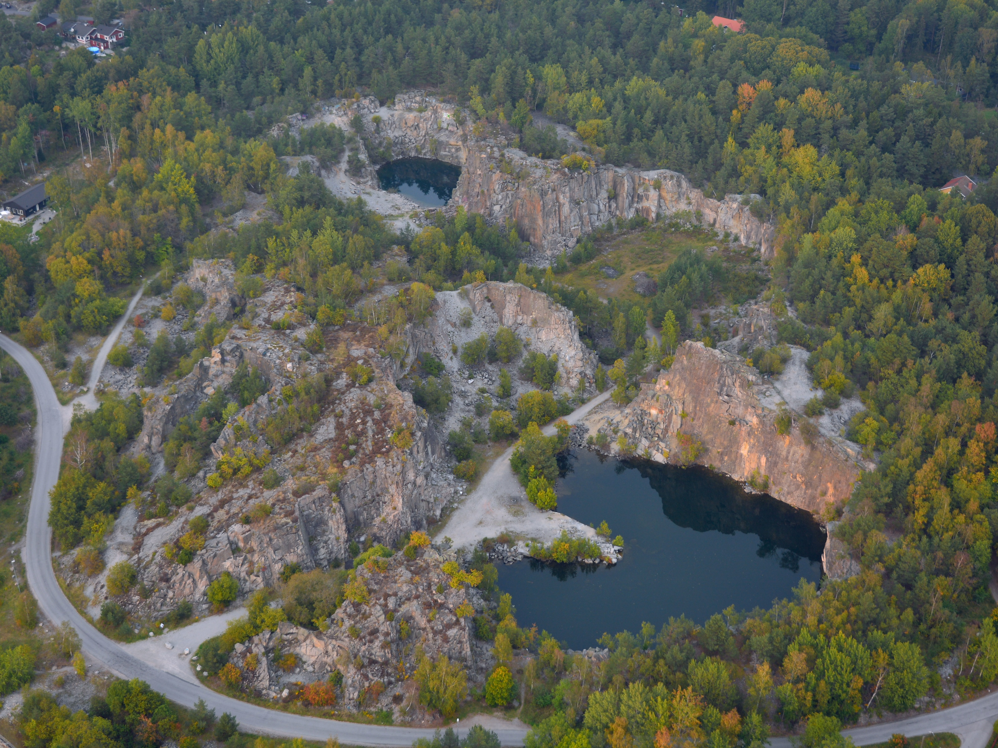 Quarry in Stenhamra on Färingsö in Ekerö municipality, Sweden.